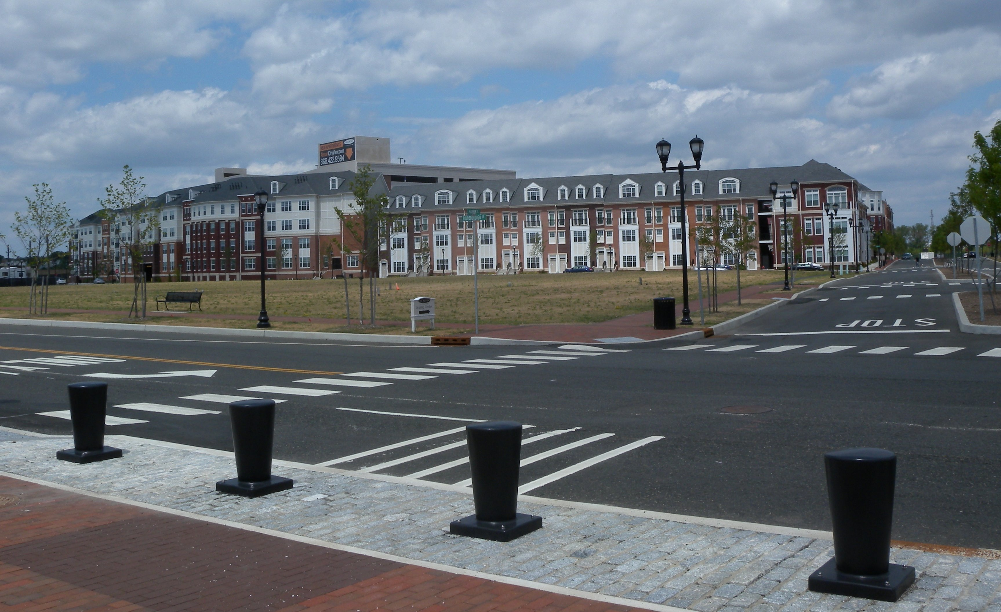 Looking northwest at new apartments in The Peninsula.